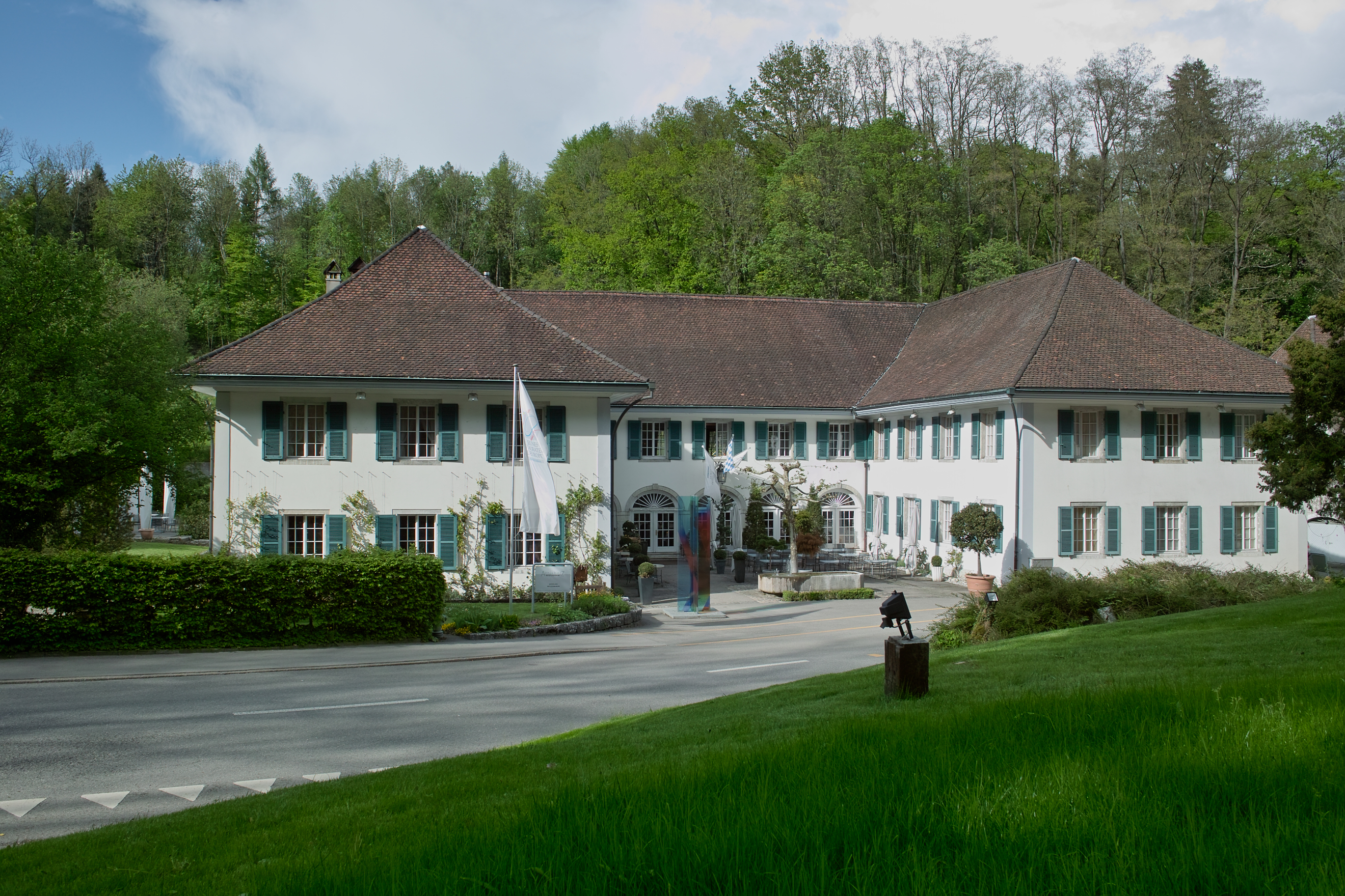 Attisholz, community of Riedholz, canton of Solothurn, Switzerland. Restaurant, former baths ("Bad Attisholz").